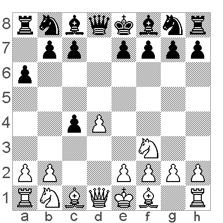 chess diagram Alekhine's gambit in "accepted Queen's gambit" Source: CBlight + my processing